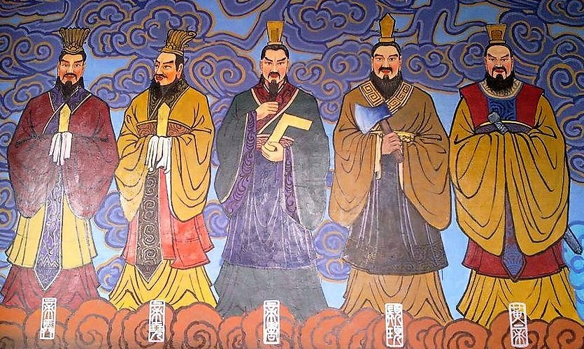 Modern fresco representing the Wǔfāng Shàngdì (五方上帝 "Five Forms of the Highest Deity") of Chinese theology.